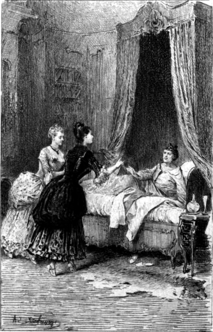 Etching by Adolphe Lalauze (1838–1905) for the Confessions du comte de *** by Charles Pinot Duclos (1742).